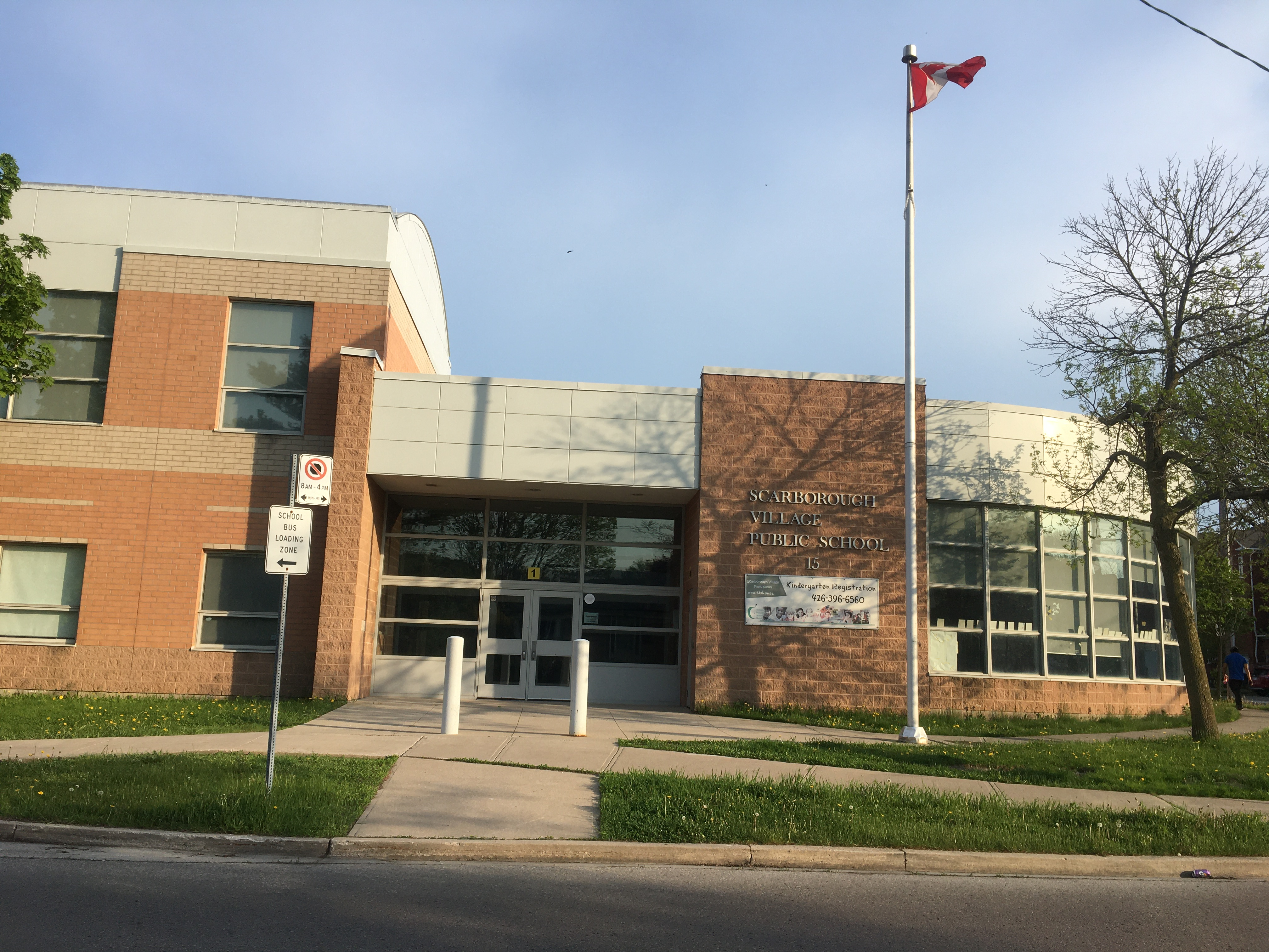 The entrance of the new Scarborough Village Public School, rebuilt in 1998.